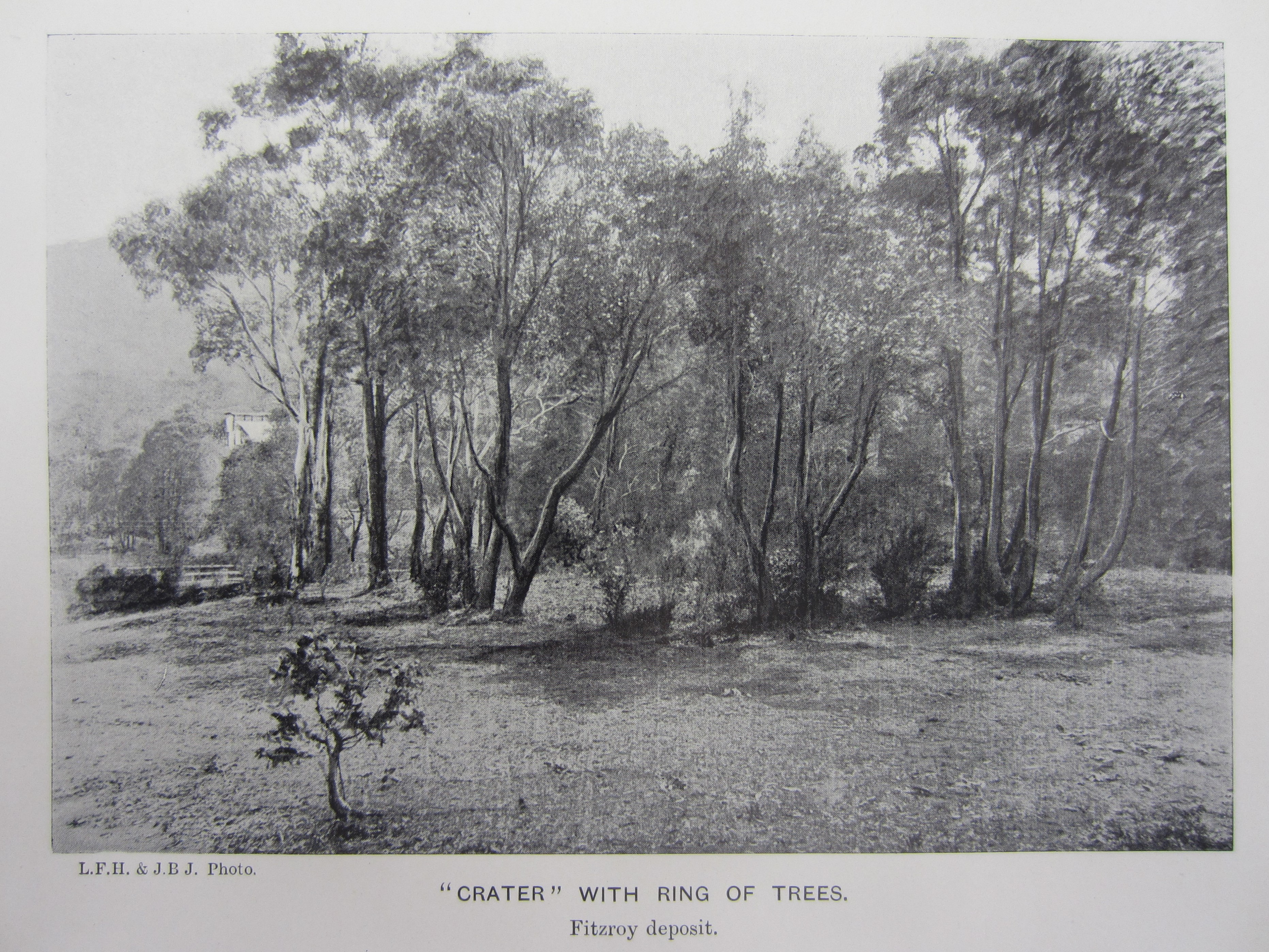 A chalybeate spring on the Fitzroy Iron Works' iron ore deposit at Mittagong, N.S.W. Australia, in its natural state ('Crater' with trees). (Reproduced from 'The Iron Ore Deposits of New South Wales', J.B.Jaquet, published by the New South Wales Department of Mines and Agriculture', 1901.)